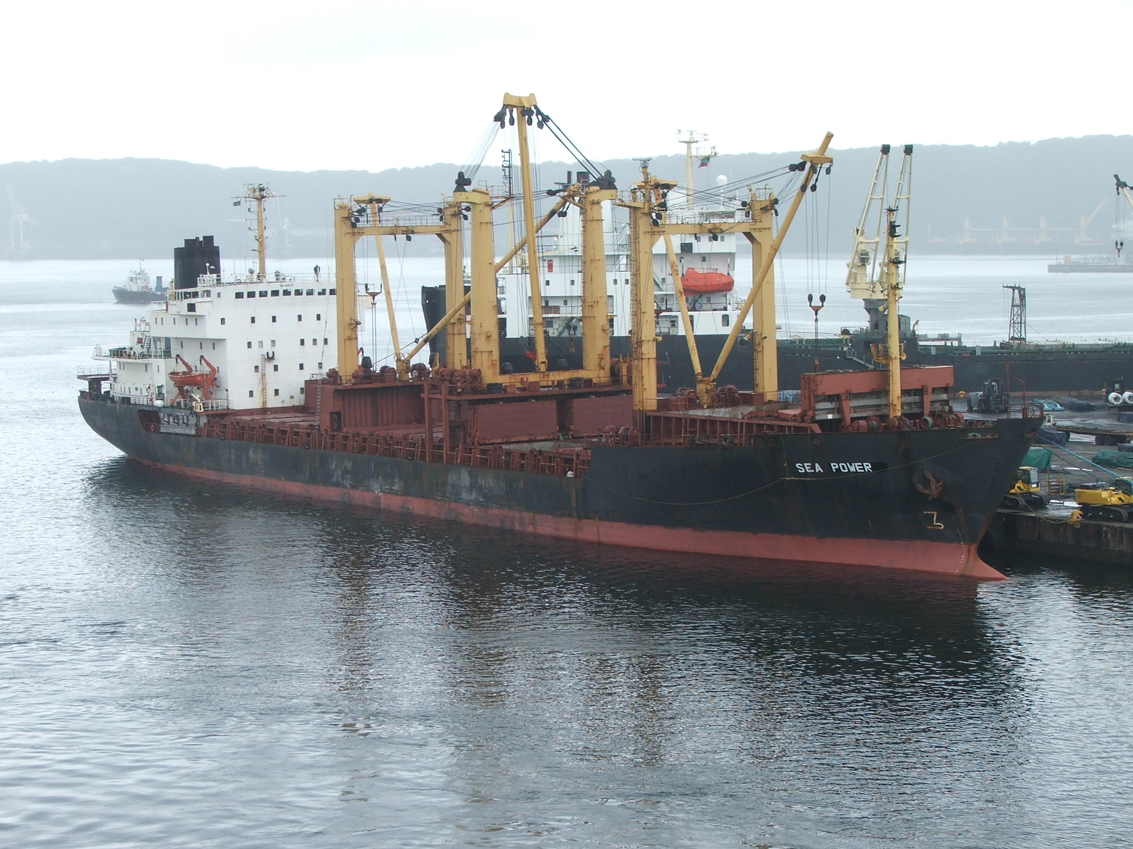 Warnow Type Monsun in Durban